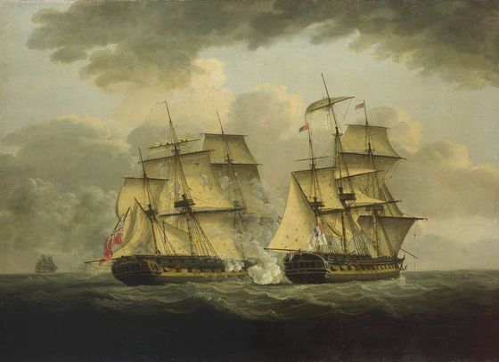 An oil painting of a naval engagement between the French frigate Semillante and British frigate Venus in 1793